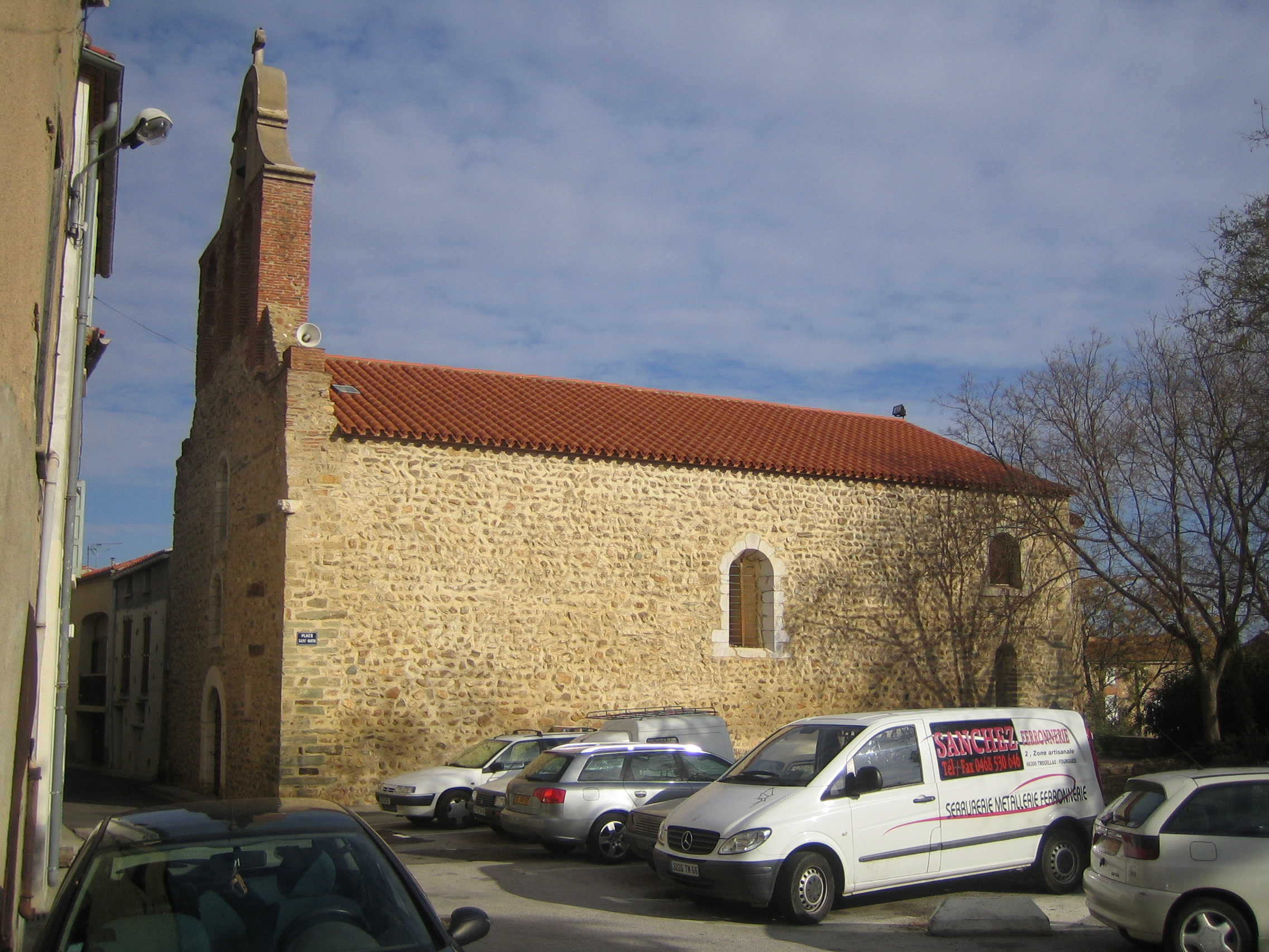 Church of Forques (Rosselló)